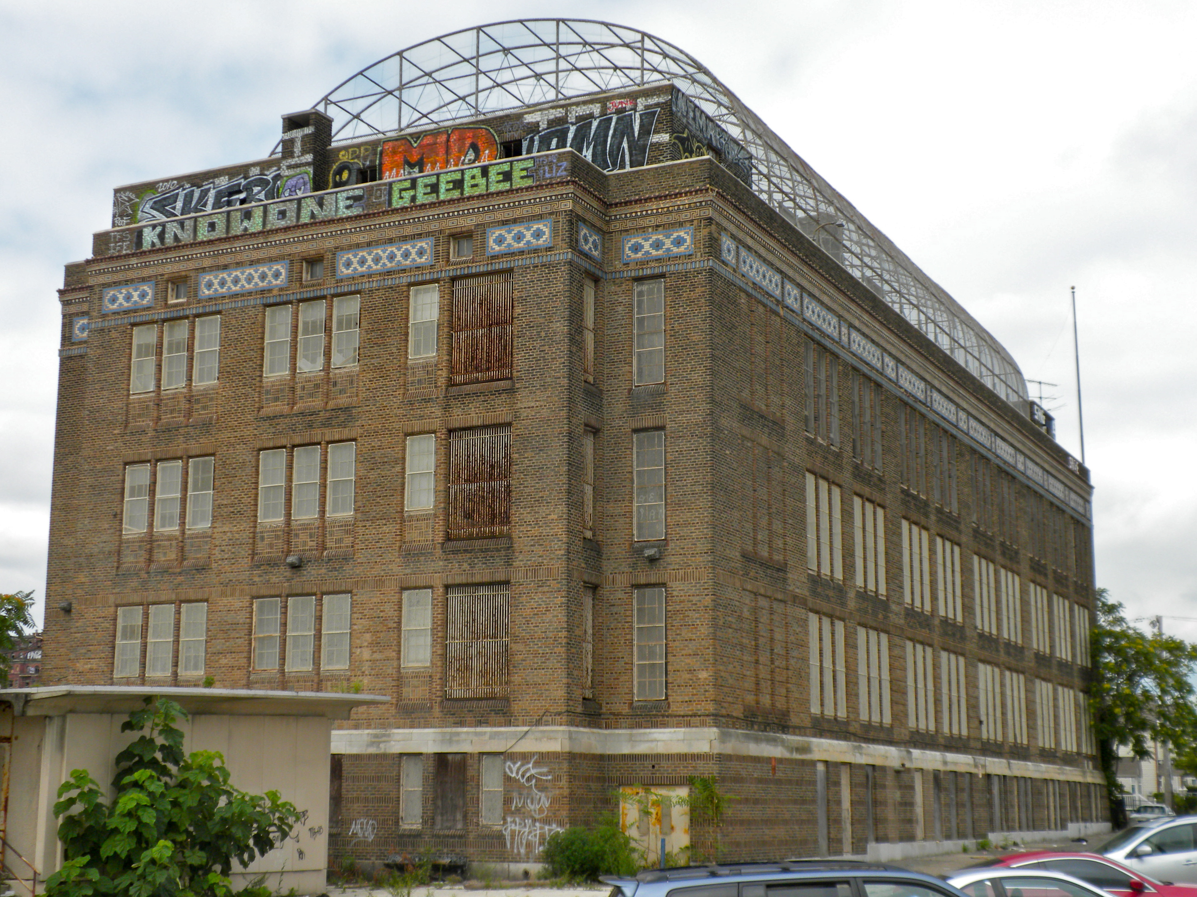 Spring Garden School No. 1 on the NRHP since December 4, 1986. At 12th and Ogden Sts., Philadelphia in the Poplar neighborhood of North Philly. Note that the nearby Spring Garden School No. 2, also on 12th, is also on the NRHP.